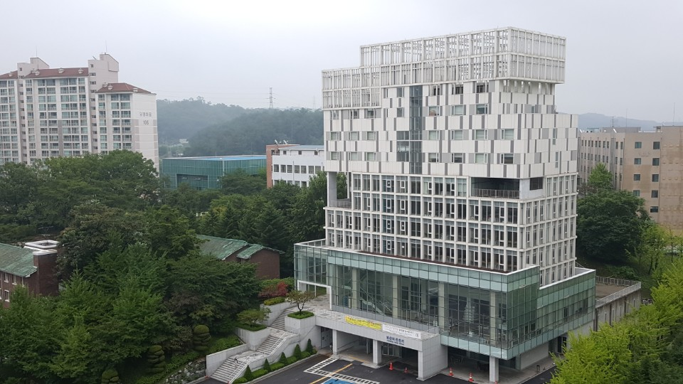 Youngsan Vision Center of Hansei University